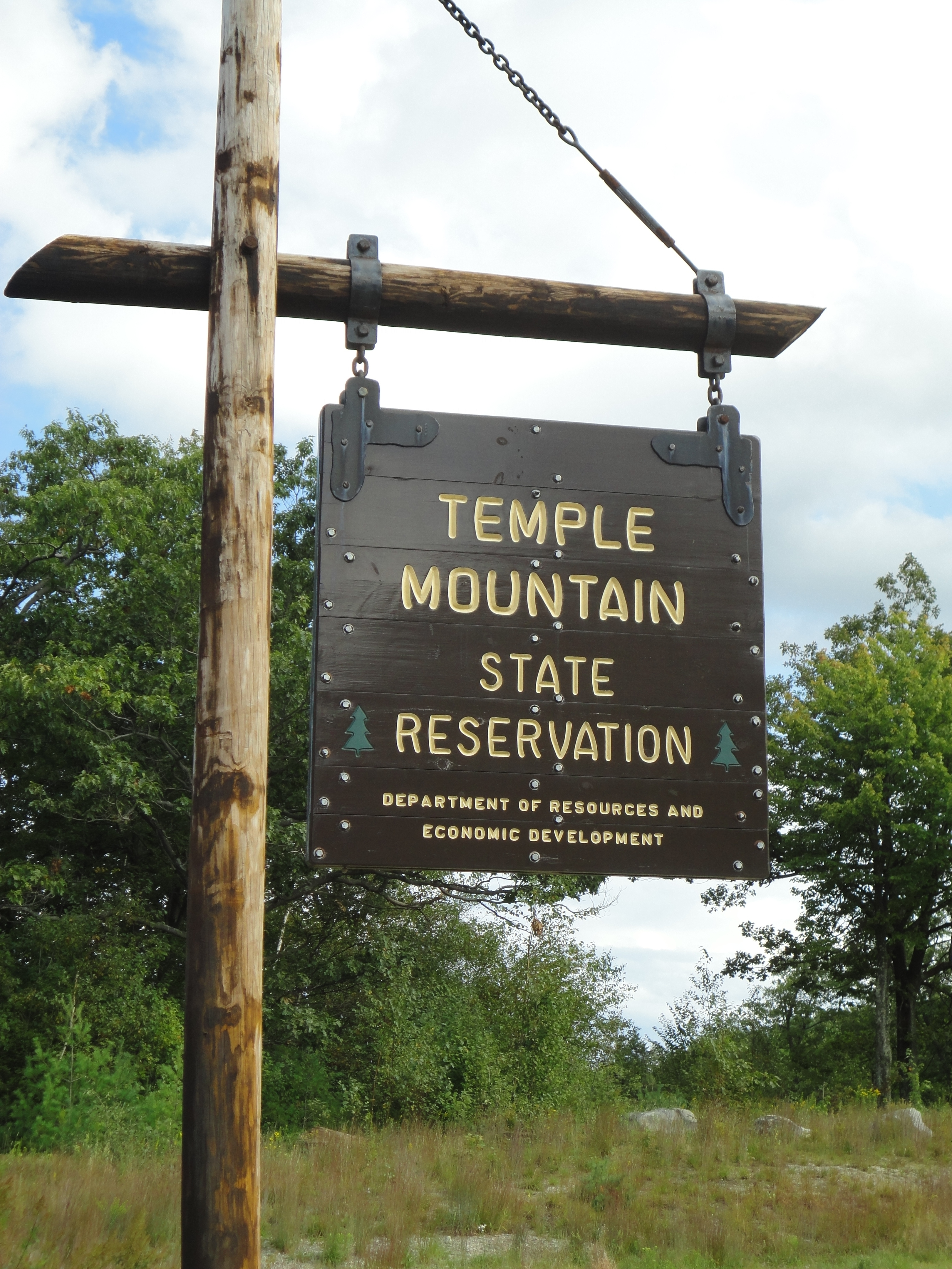 Official sign of Temple Mountain State Researvation in the state of New Hampshire. Photographed Sept. 2012